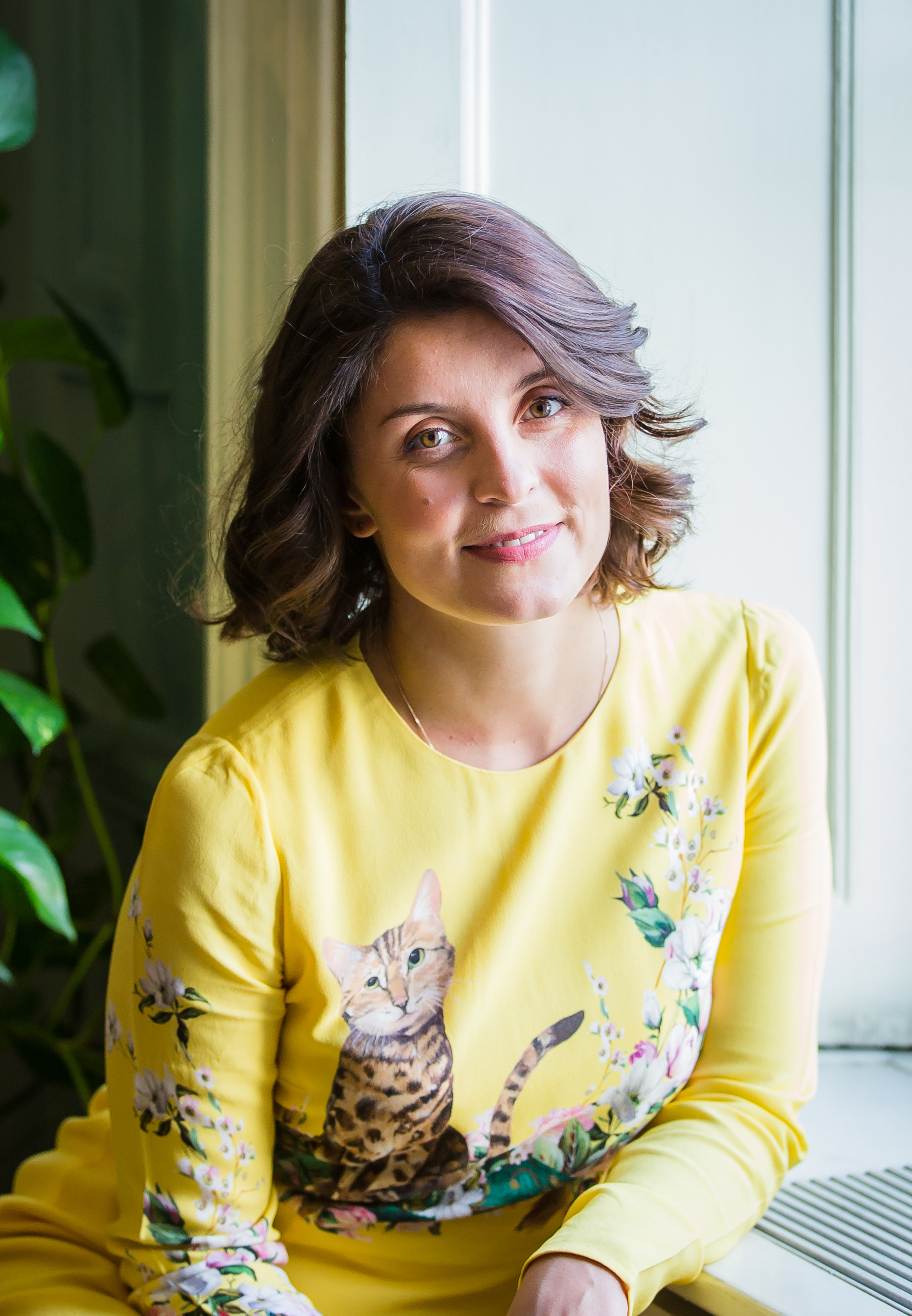 Jessie Burton taken at Bloomsbury publishers